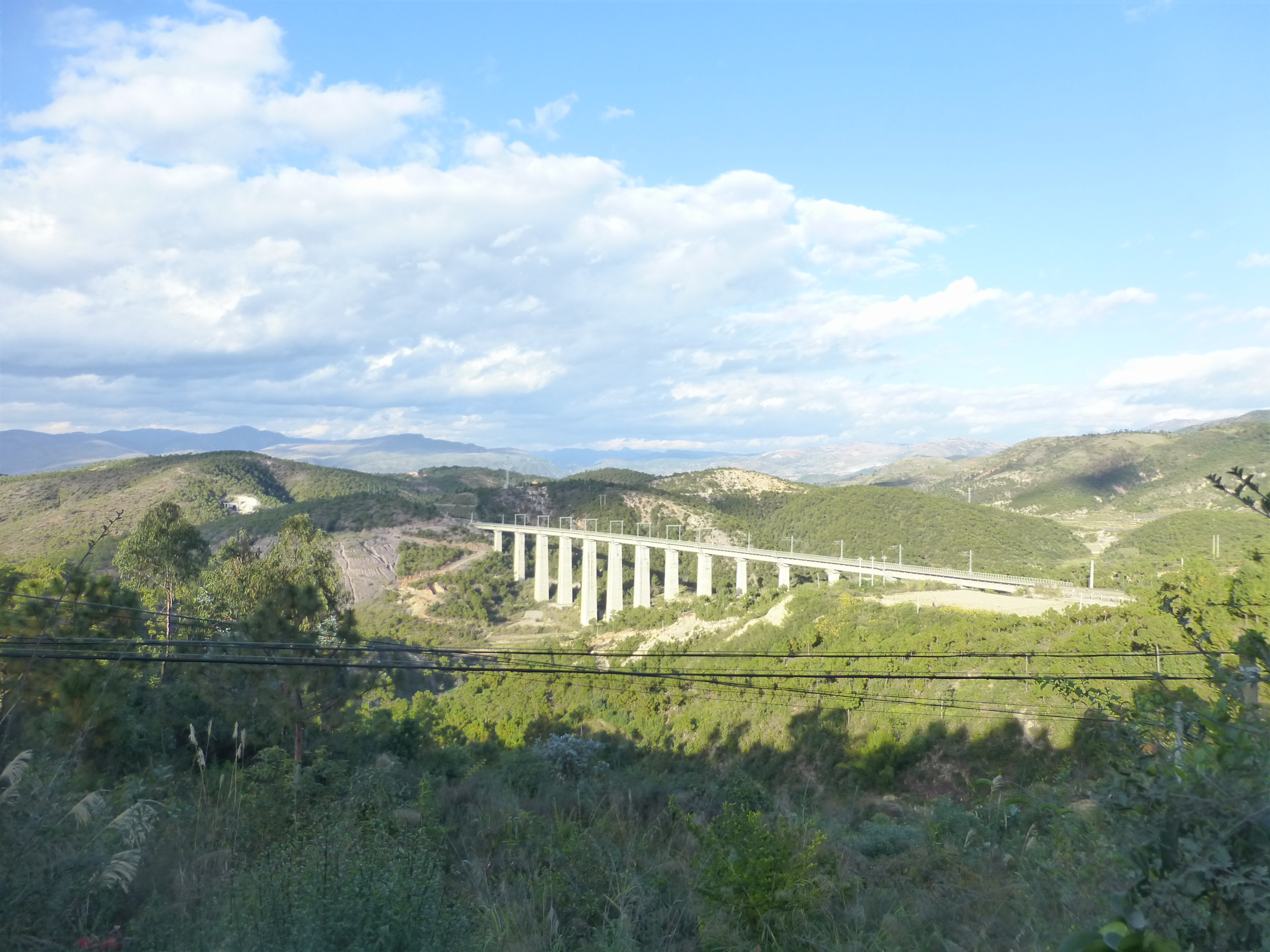 On Hwy S214 in the northerrn near Xiangmuqiao Village, between Xiangmuqiao Village and Yema Village. The Yuxi-Mengzi Railway is a bit east of the highway, and often can be seen, as it appears from one tunnel and then disappears in the next one.